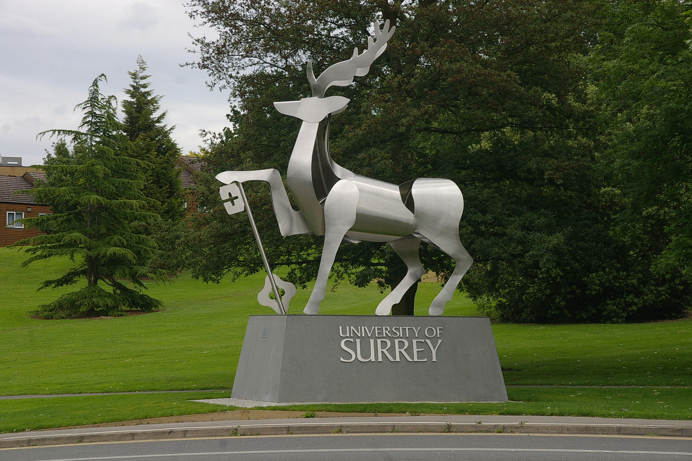 University of Surrey stag statue in Guildford.